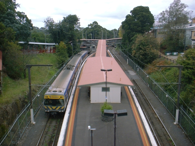 Picture taken myself on 22/4/2006. Anyone can use this image for any reason.